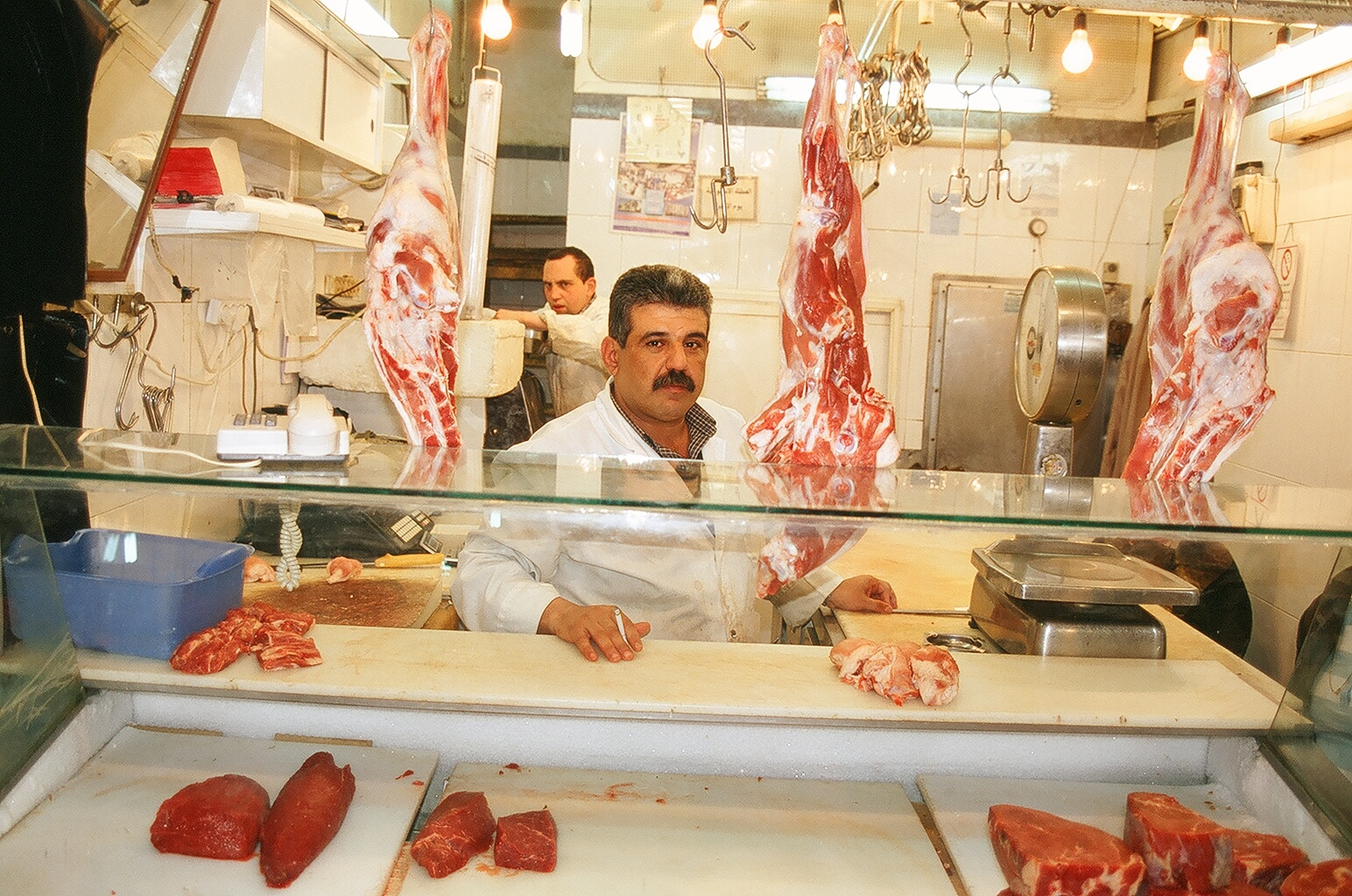 Palestinian store with religiously slaughtered meat.